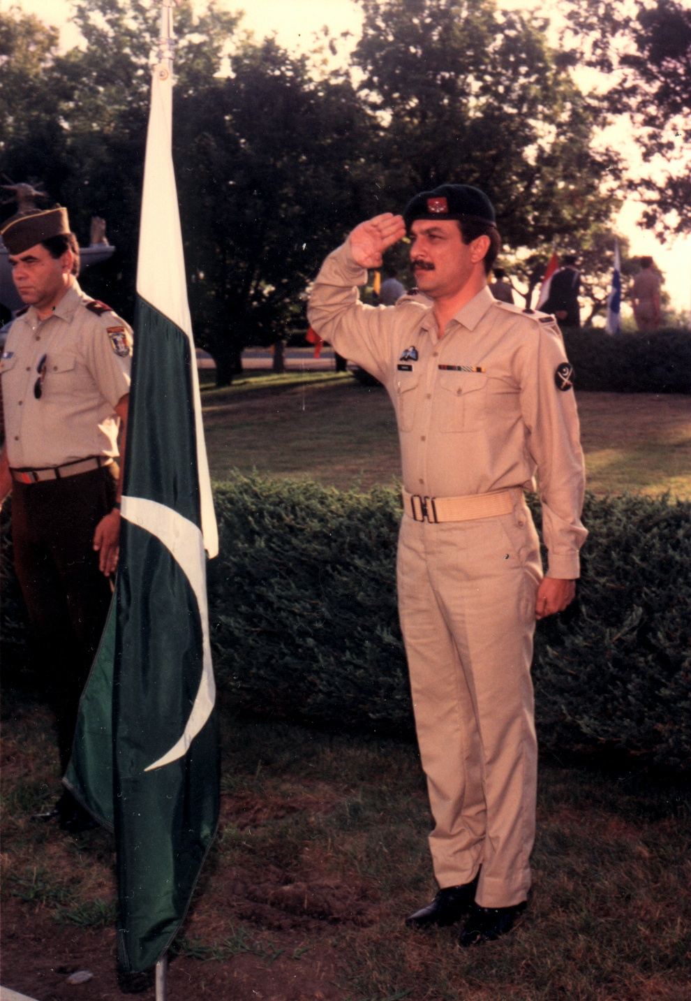 Saluting the flag of Islamic Republic of Pakistan